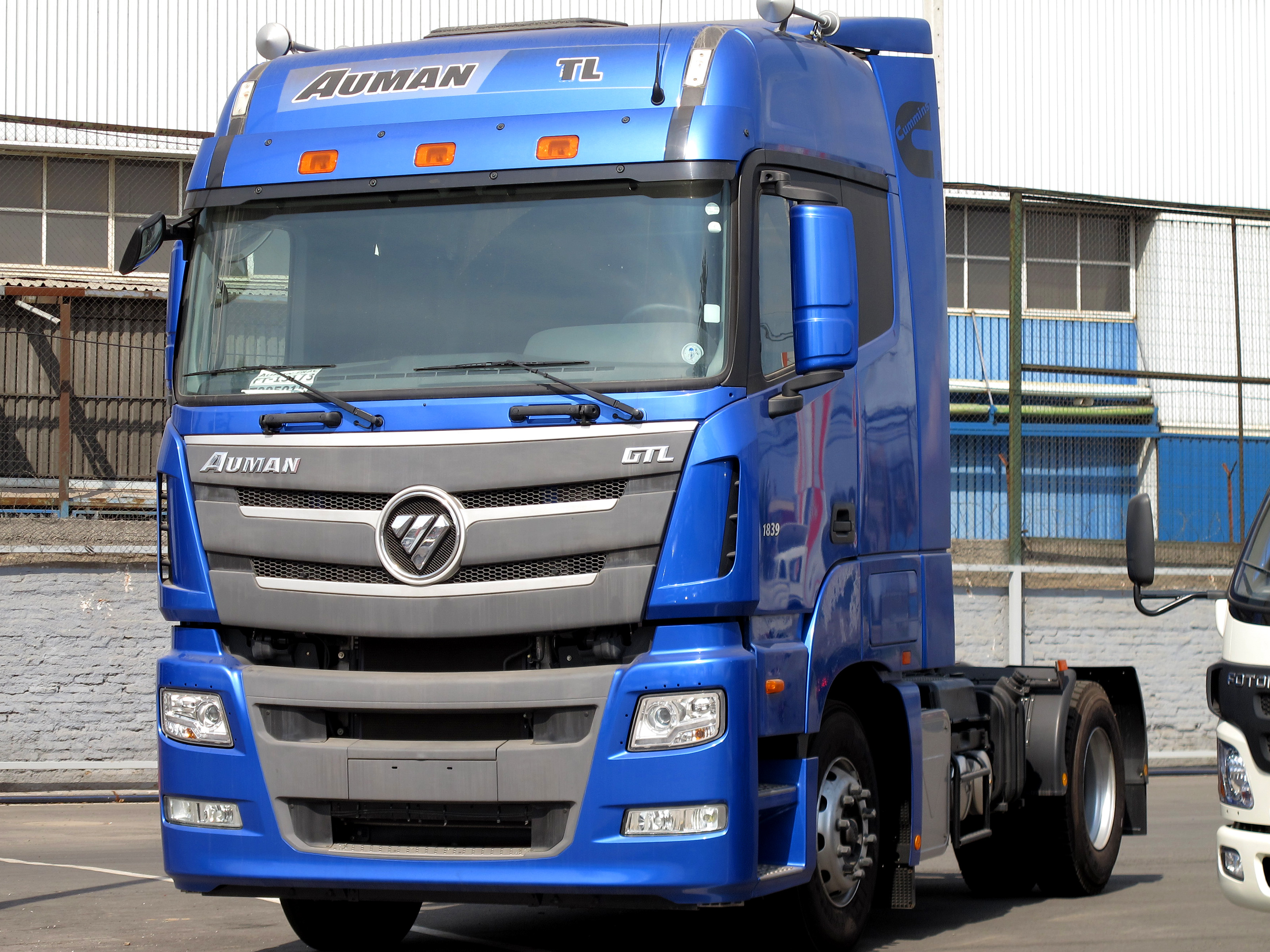 Foton Auman GTL 1839